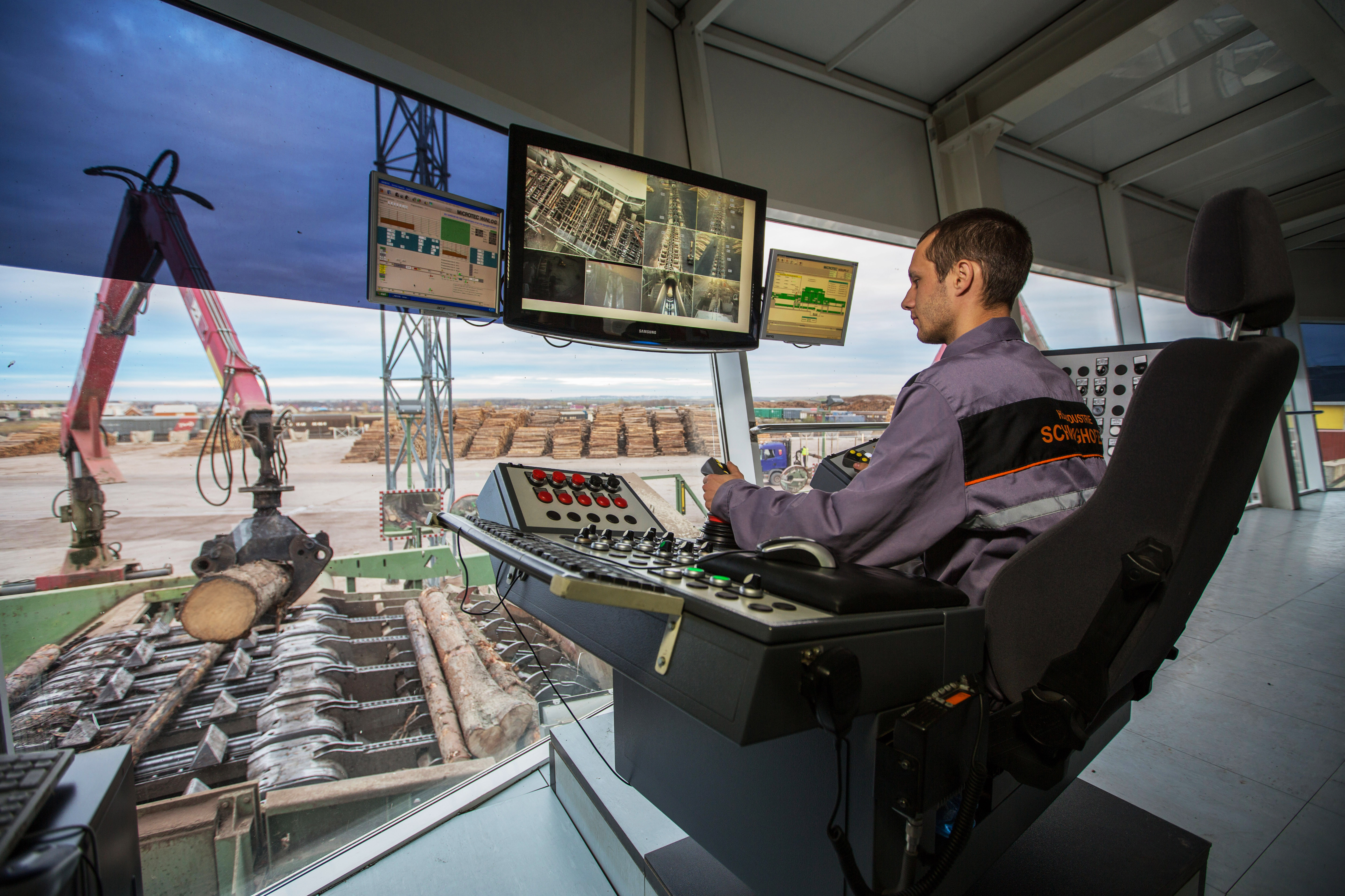 Sawmill in Rădăuți, Romania.